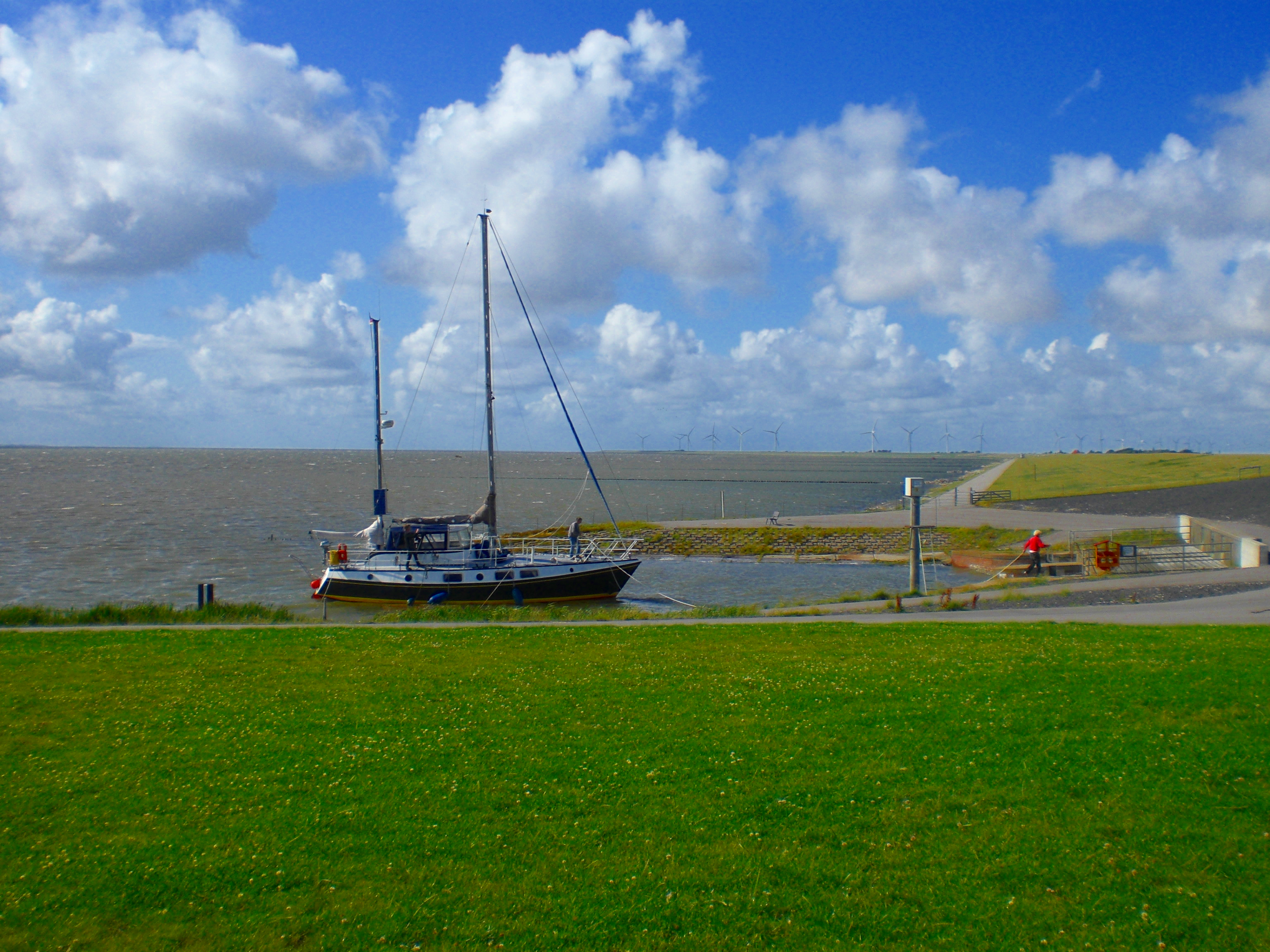 Südwesthörn high tide